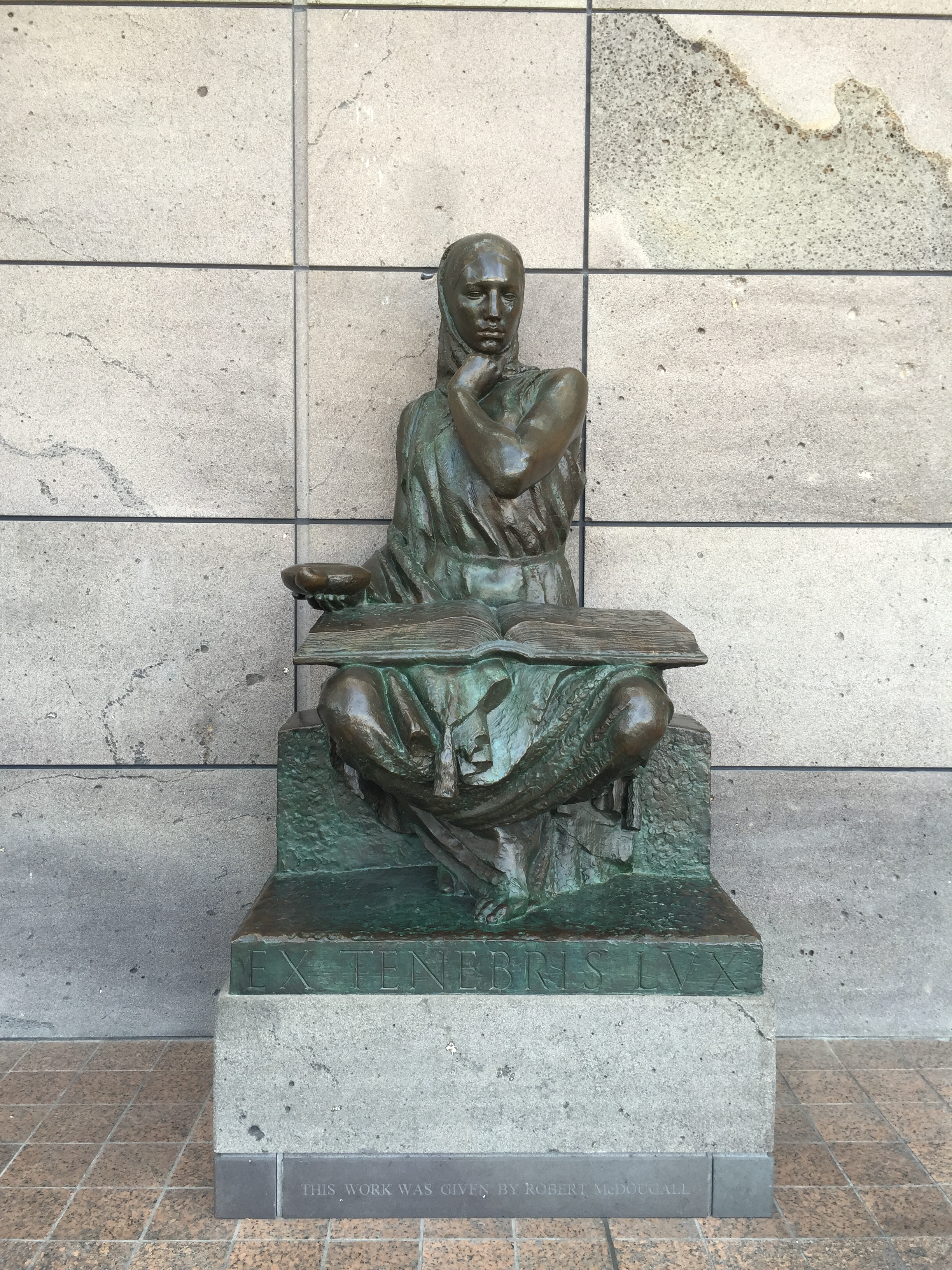 Ex Tenebris Lux (from darkness comes light). 1937. Ernest Gillick (1874-1951). Model:Lorna Waring Rowland. In Christchurch Art Gallery, New Zealand.